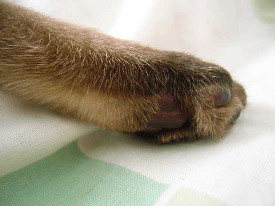 thai cat, siamese cat breed, thaicat, traditional siamese, old style siamese, applehead siamese